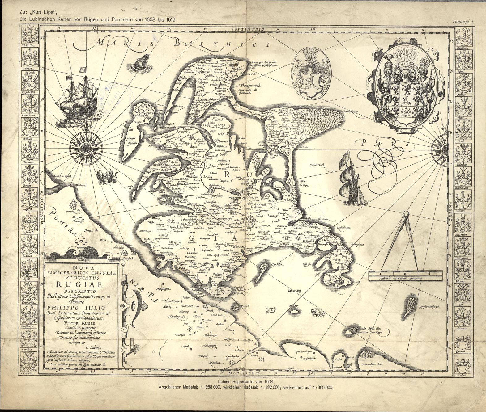 Map of Rügen, scale 1:300,000